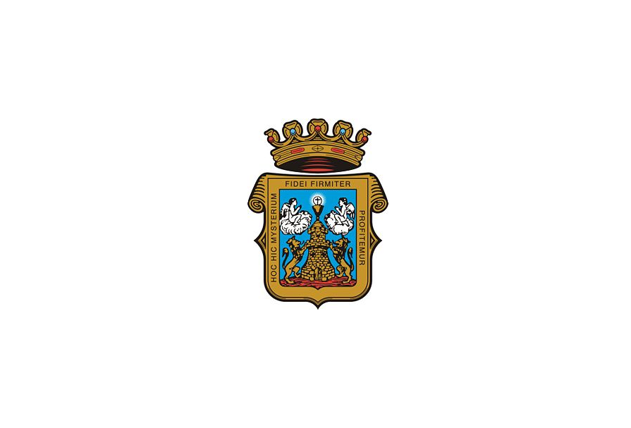 Flag of the City of Lugo, Spain (official)